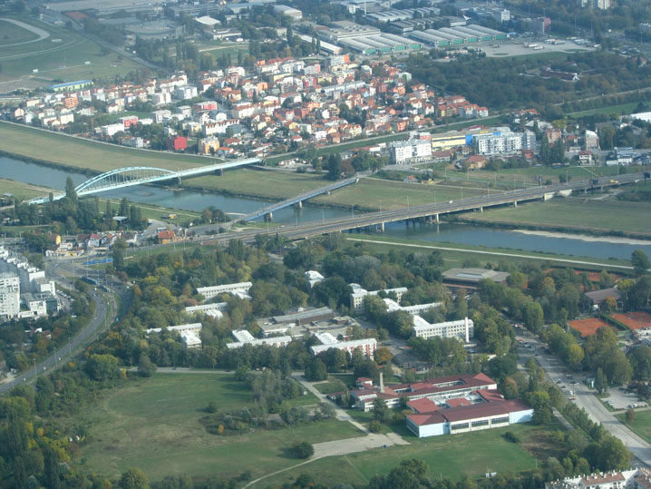 Bridges over Sava in Zagreb, Croatia, from the air